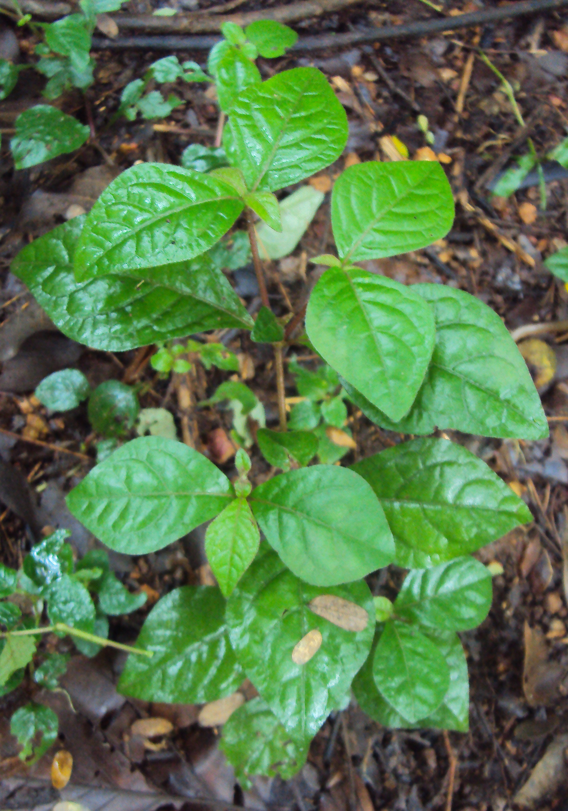 Cyanthula prostrata Blume - ചെറിയ കടലാടി